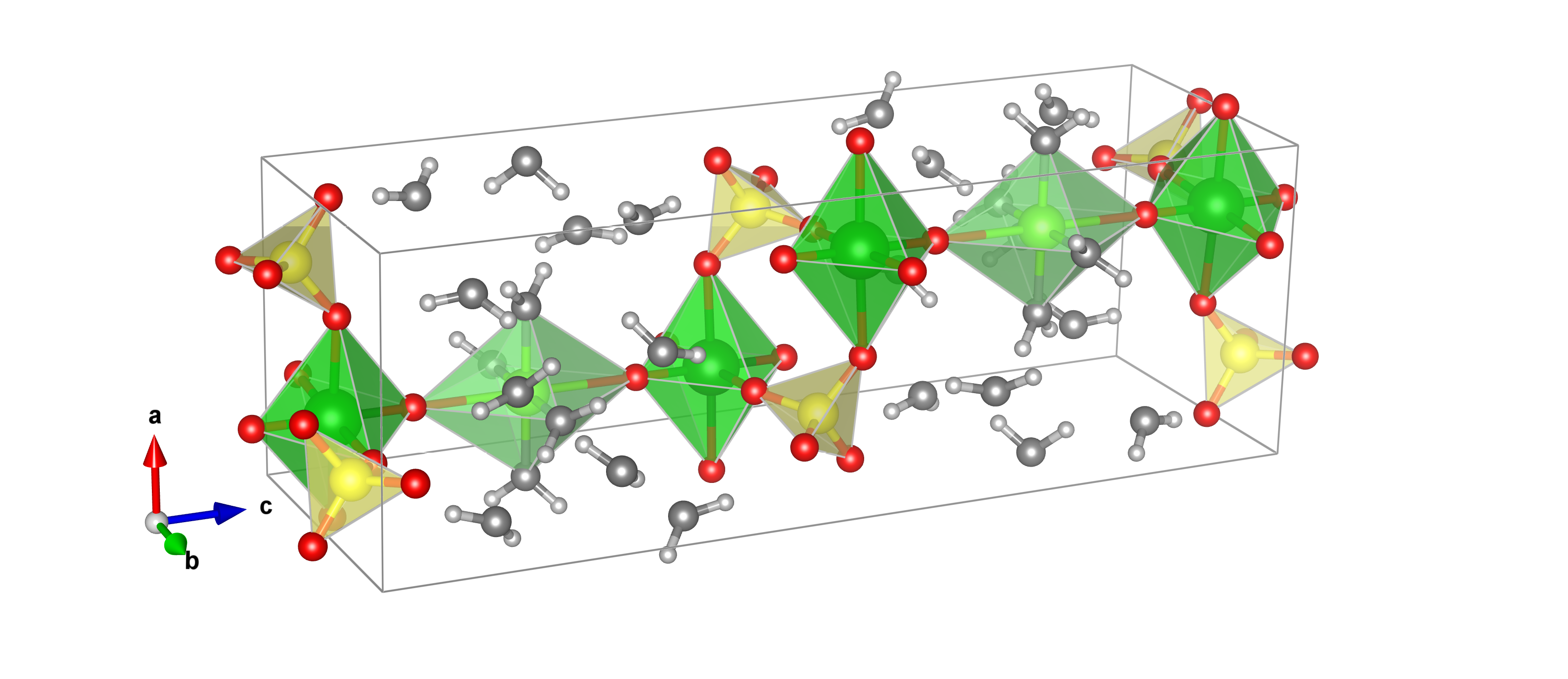 Unit cell of synthetic torbernite (Cu[(UO2)(PO4)]2(H2O)12) (U = dark green, Cu = light green, O = red, P = yellow, O(H2O) = grey, H = lightgrey)